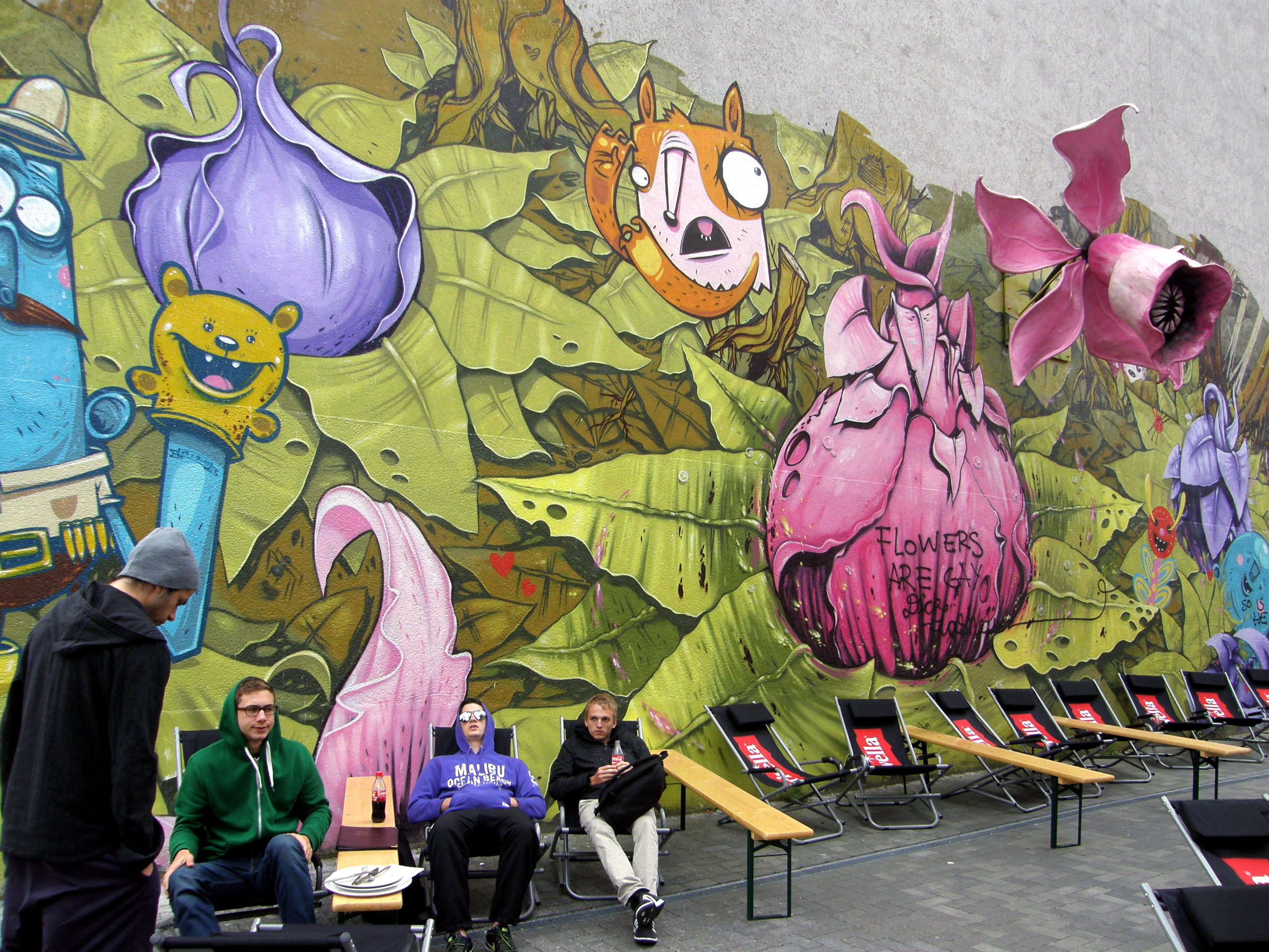 Wall painting seen near Maybachufer in Berlin-Kreuzberg, Germany.